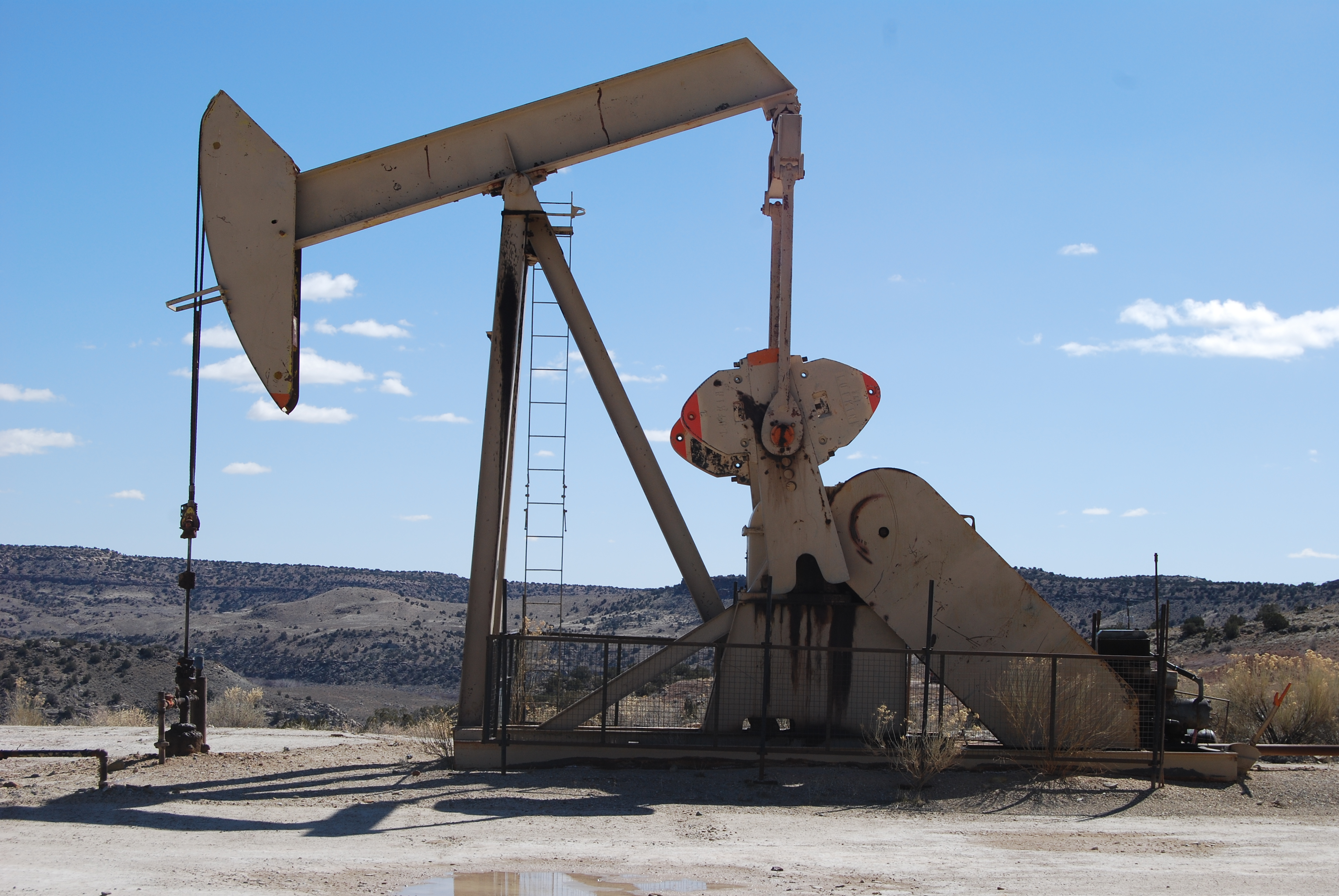 Tin Cup Oil Field